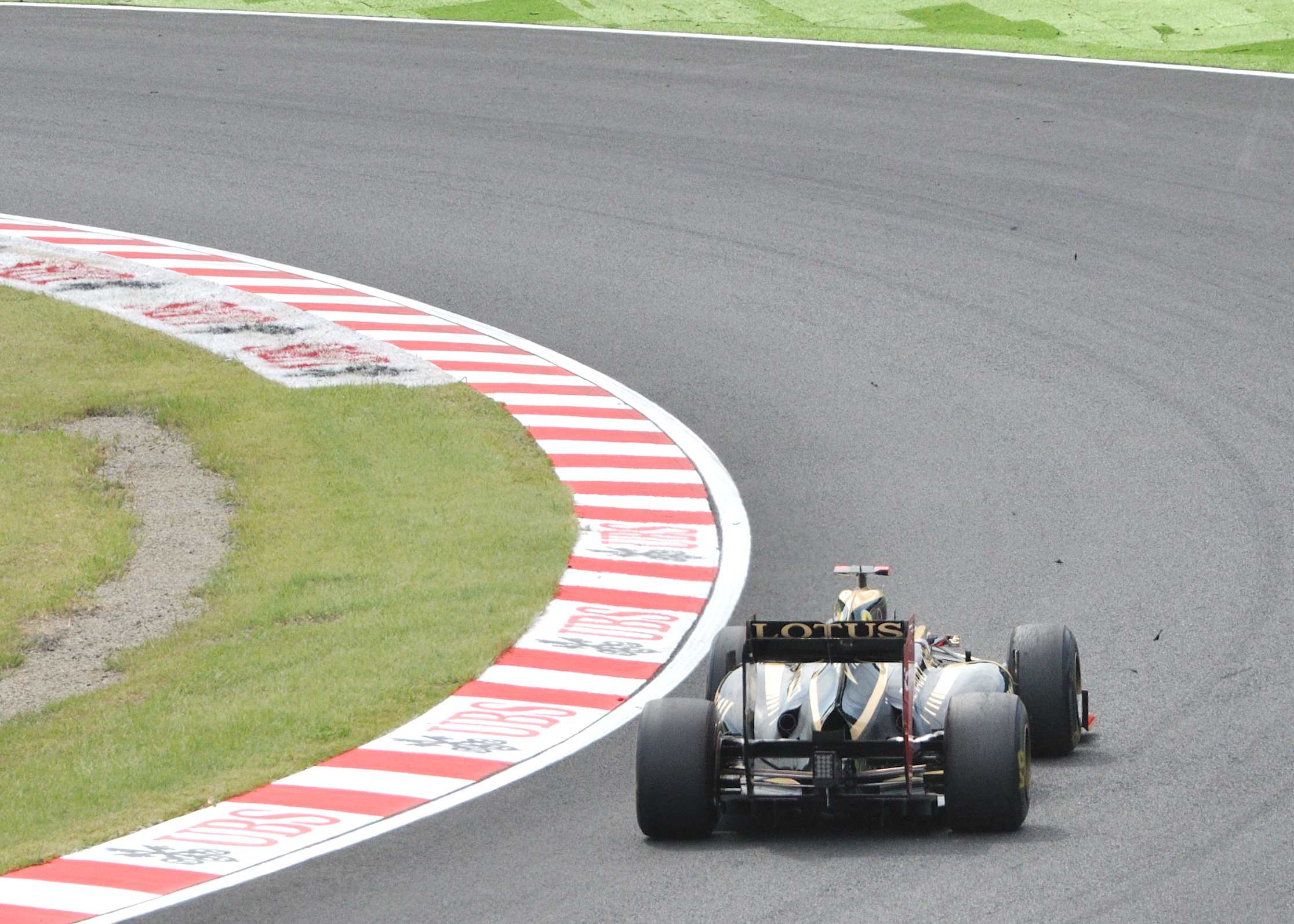 The front right tyre of Kimi Raikkonen's Lotus is breaking-up through the exit of spoon curve during final free practice of the 2012 Formula 1 Japanese Grand Prix at Suzuka Circuit.